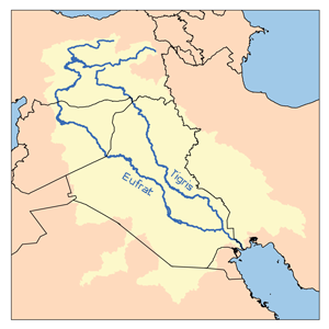 A map of the Tigris–Euphrates watershed.